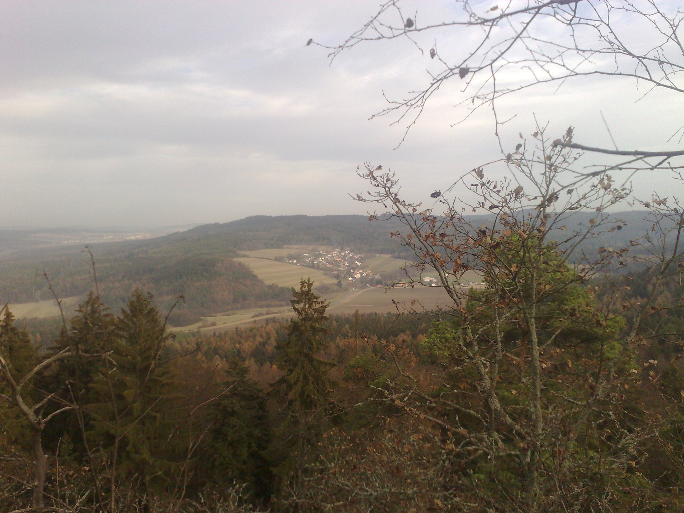 Village of Hůrky as seen from Mt. Žďár (629 m) near Rokycany, Czech Republic.